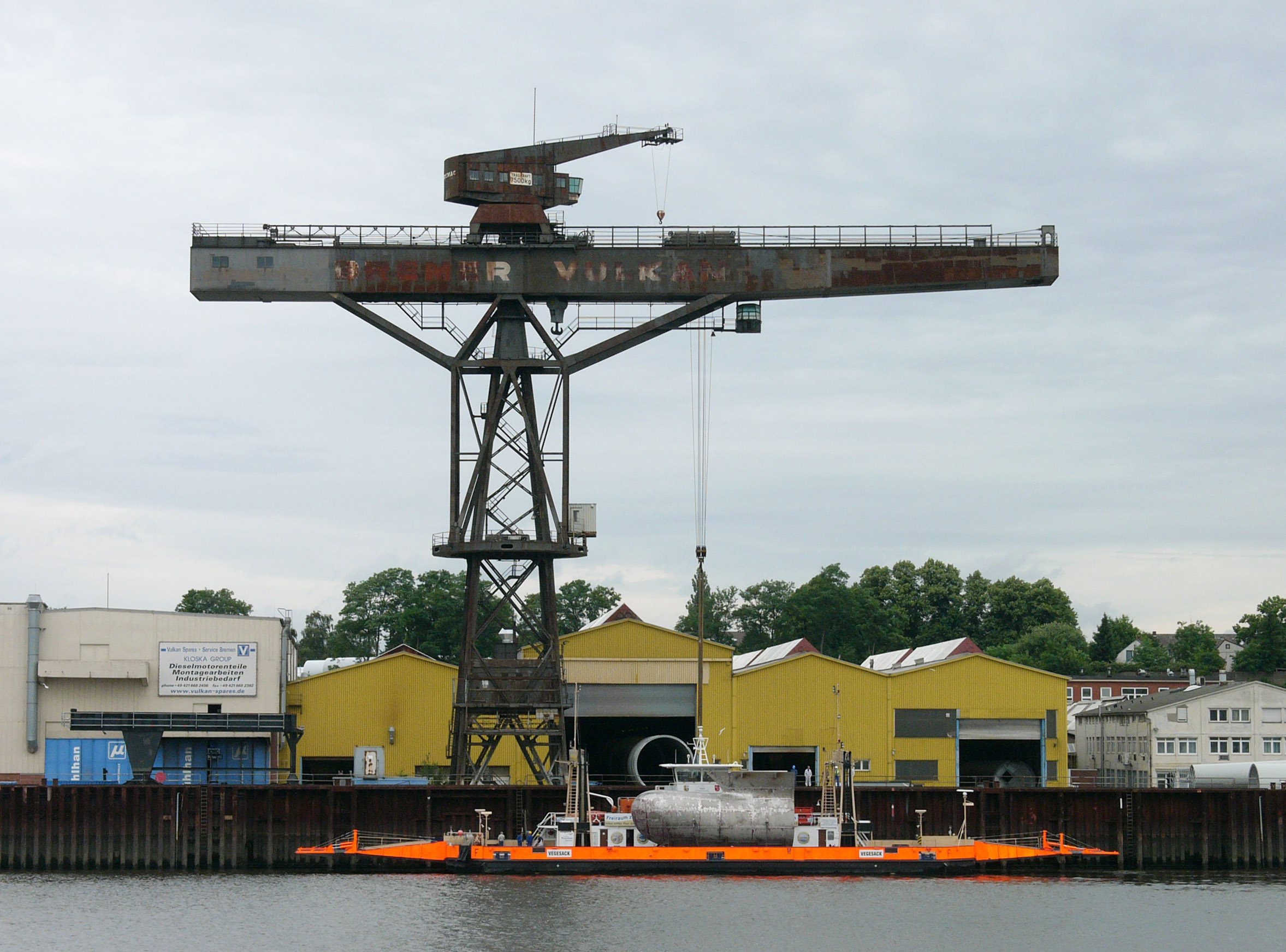 Crane of former Bremer Vulkan AG ship yard, Bremen-Vegesack, Germany (removed 2012)